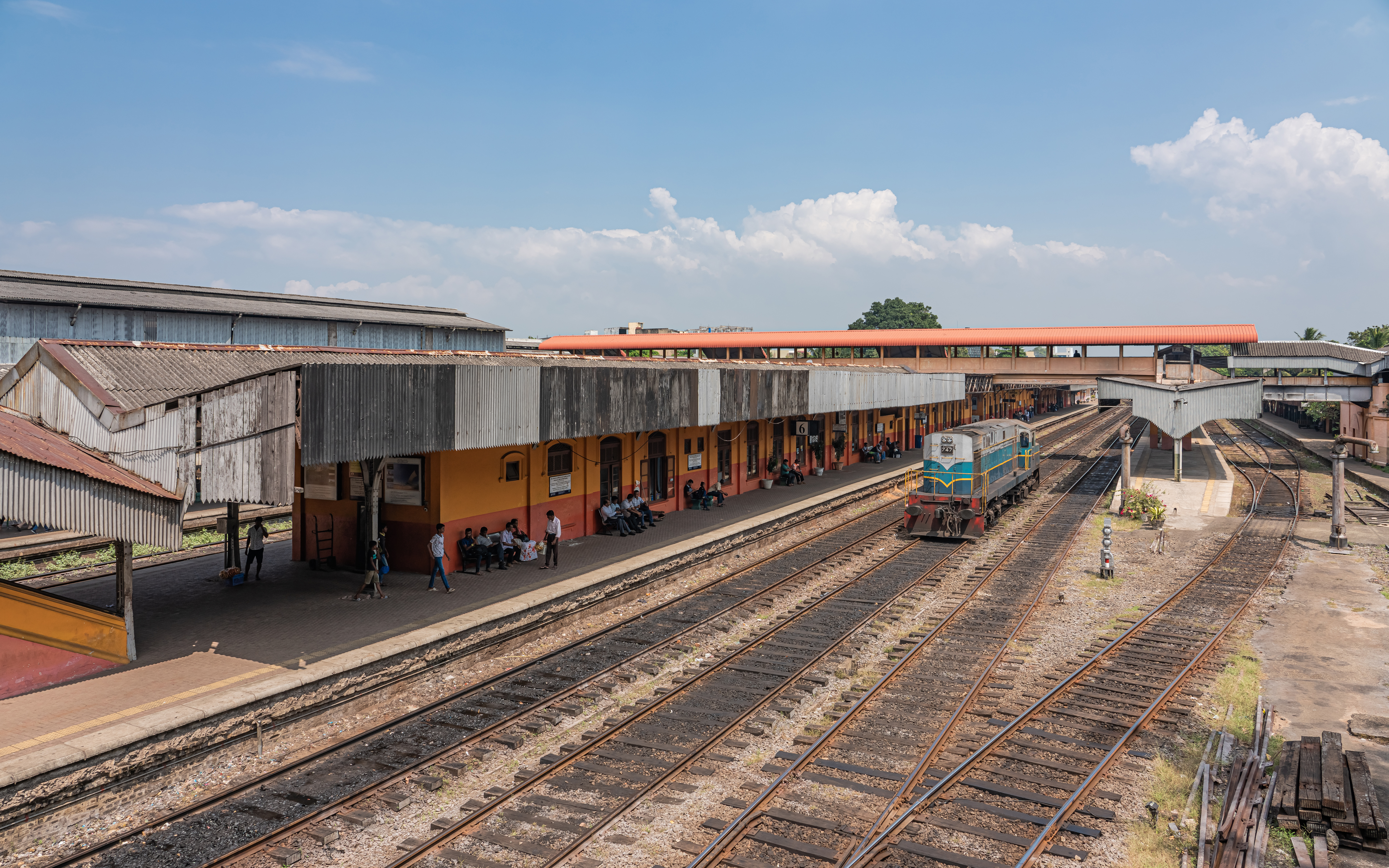 Maradana railway station in Colombo, Sri Lanka: tracks and platforms